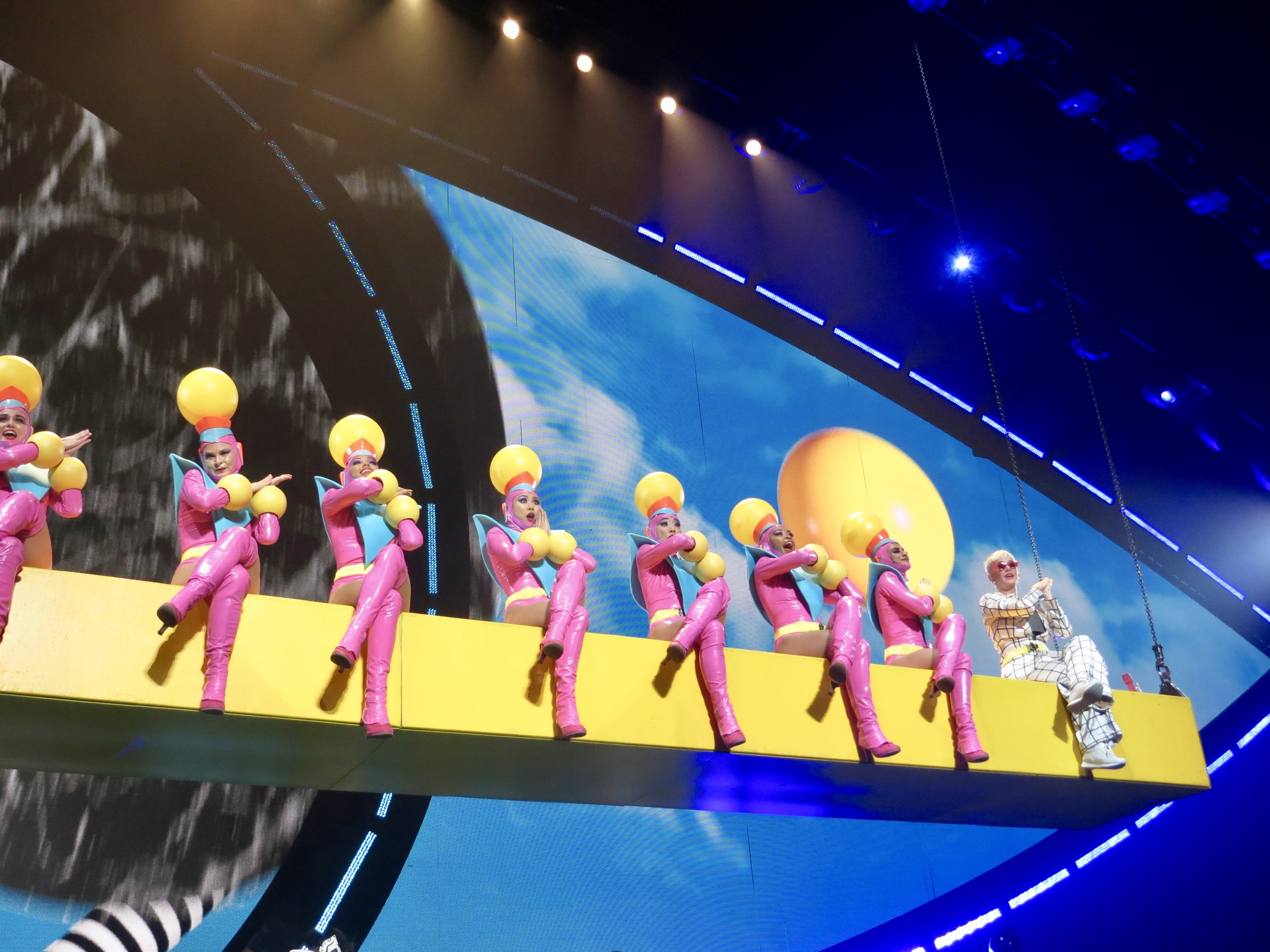 Katy Perry 4